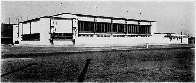 Jan Wils (architect). Fencing Hall for the 9th Olympiad, Amsterdam. 1926-1928 (?).